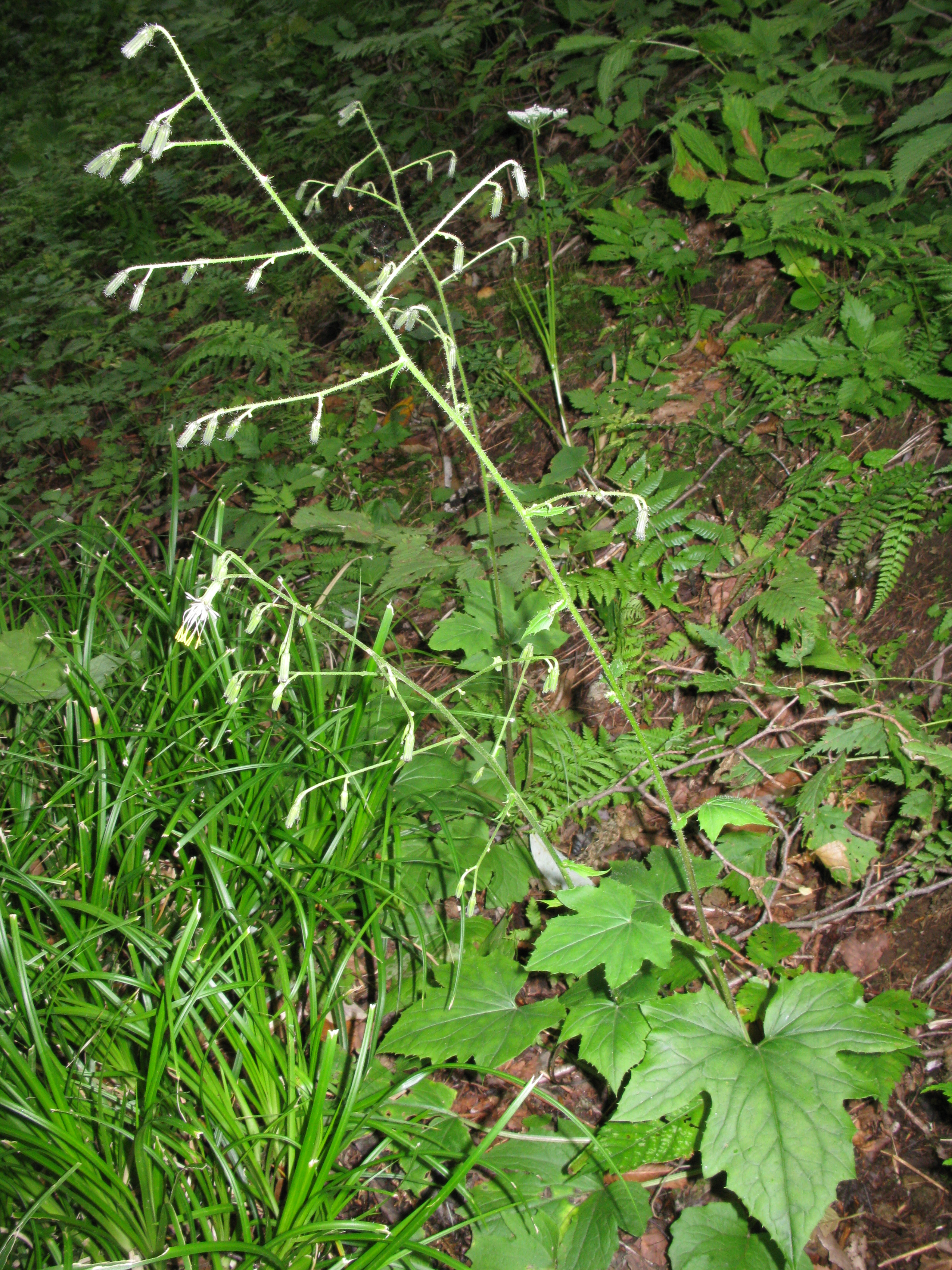 Prenanthes acerifolia, Aizu area, Fukushima pref., Japan